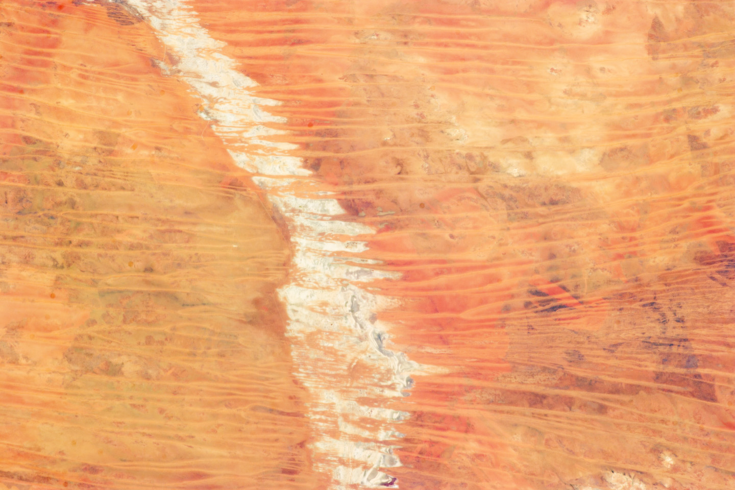 In northwest Australia, the Great Sandy Desert holds great geological interest as a zone of active sand dune movement. While a variety of dune forms appear across the region, this astronaut photograph features numerous linear dunes (about 25 meters high) separated in a roughly regular fashion (0.5 to 1.5 kilometers apart). The dunes are aligned to the prevailing winds that generated them, which typically blow from east to west. Where linear dunes converge, dune confluences point downwind. When you fly over such dune fields—either in an airplane or the International Space Station—the fire scars stand out. Where thin vegetation has been burned, the dunes appear red from the underlying sand; dunes appear darker where the vegetation remains. Astronaut photograph ISS035-E-9454 was acquired on March 25, 2013, with a Nikon D3S digital camera using a 400 millimeter lens, and is provided by the ISS Crew Earth Observations experiment and Image Science & Analysis Laboratory, Johnson Space Center. The image was taken by the Expedition 35 crew. It has been cropped and enhanced to improve contrast, and lens artifacts have been removed.